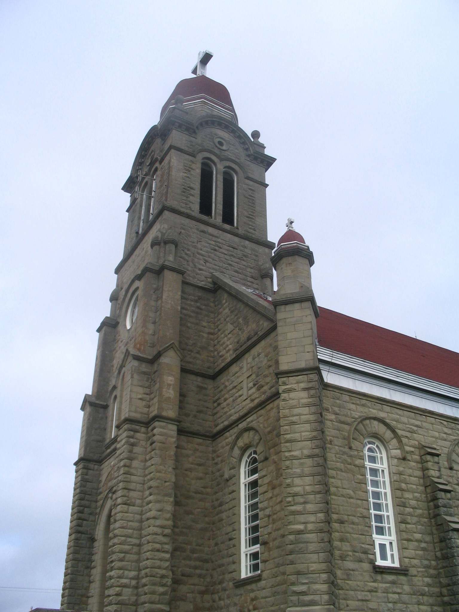 The catholic church of Grande-Anse, New Brunswick, Canada.